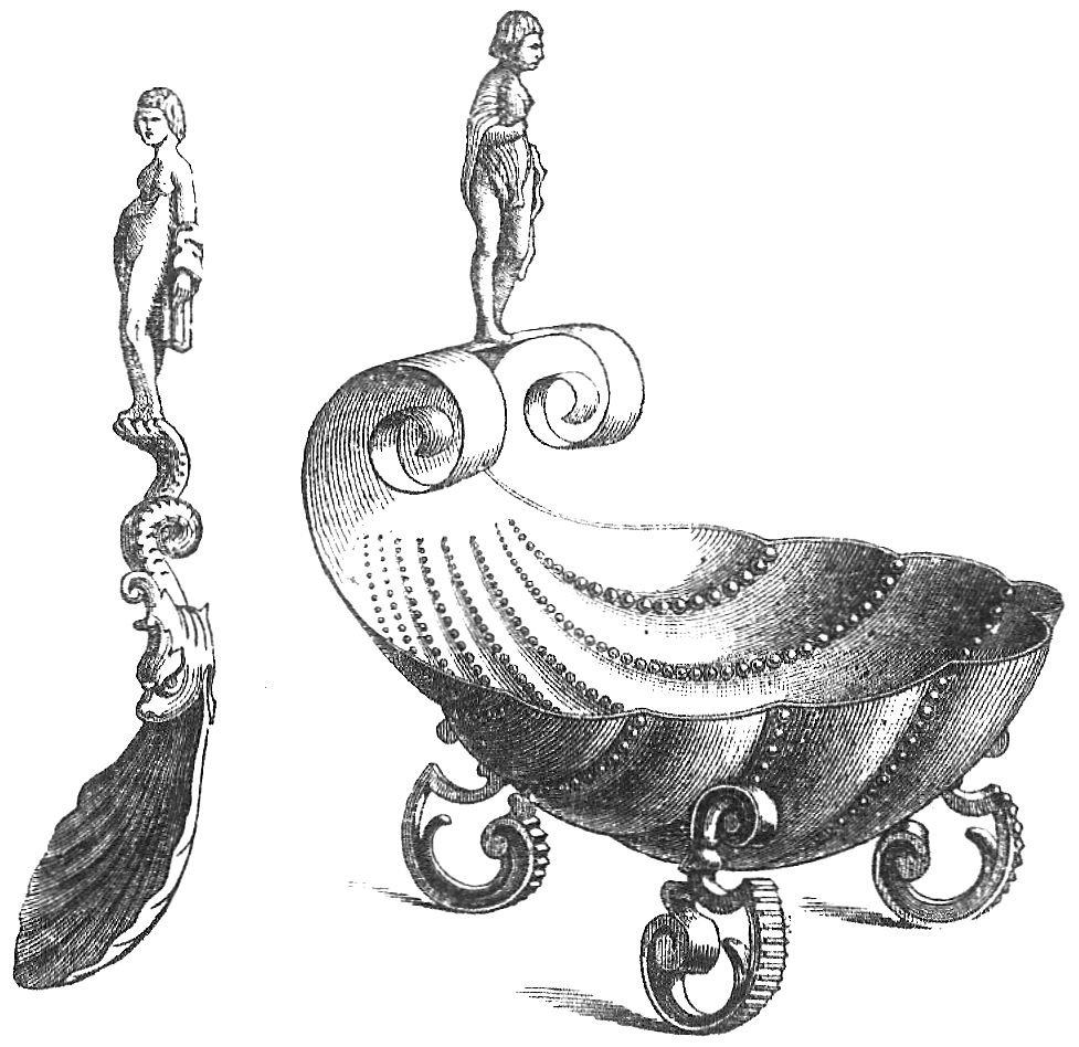 Salt cellar and salt spoon, taken from Meyers 1905